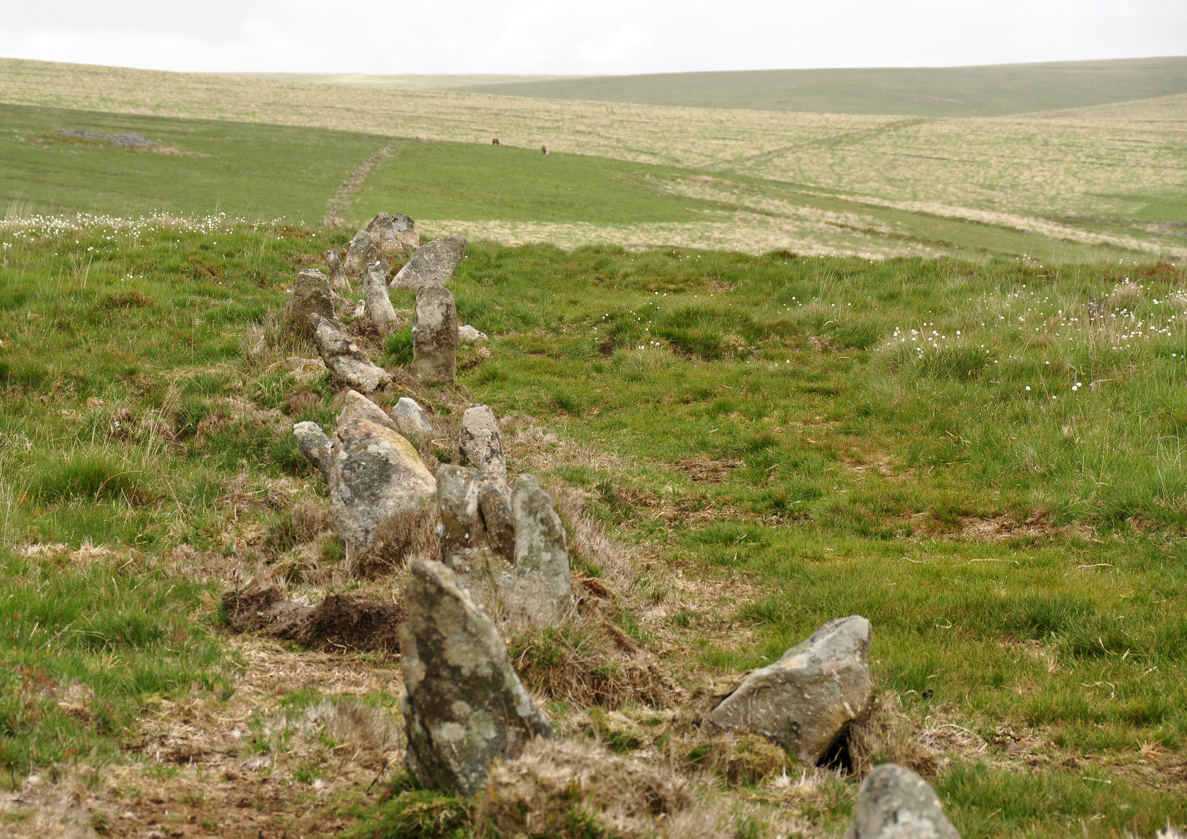 Part of the 2 mile long stone row on Stall Moor, Dartmoor.